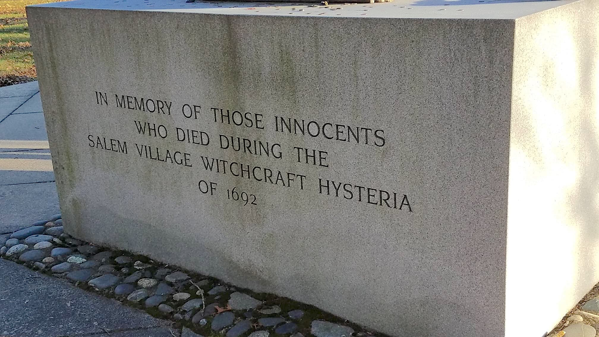 Part of the memorial for the victims of the 1692 witchcraft trials, Danvers, Massachusetts; principal inscription